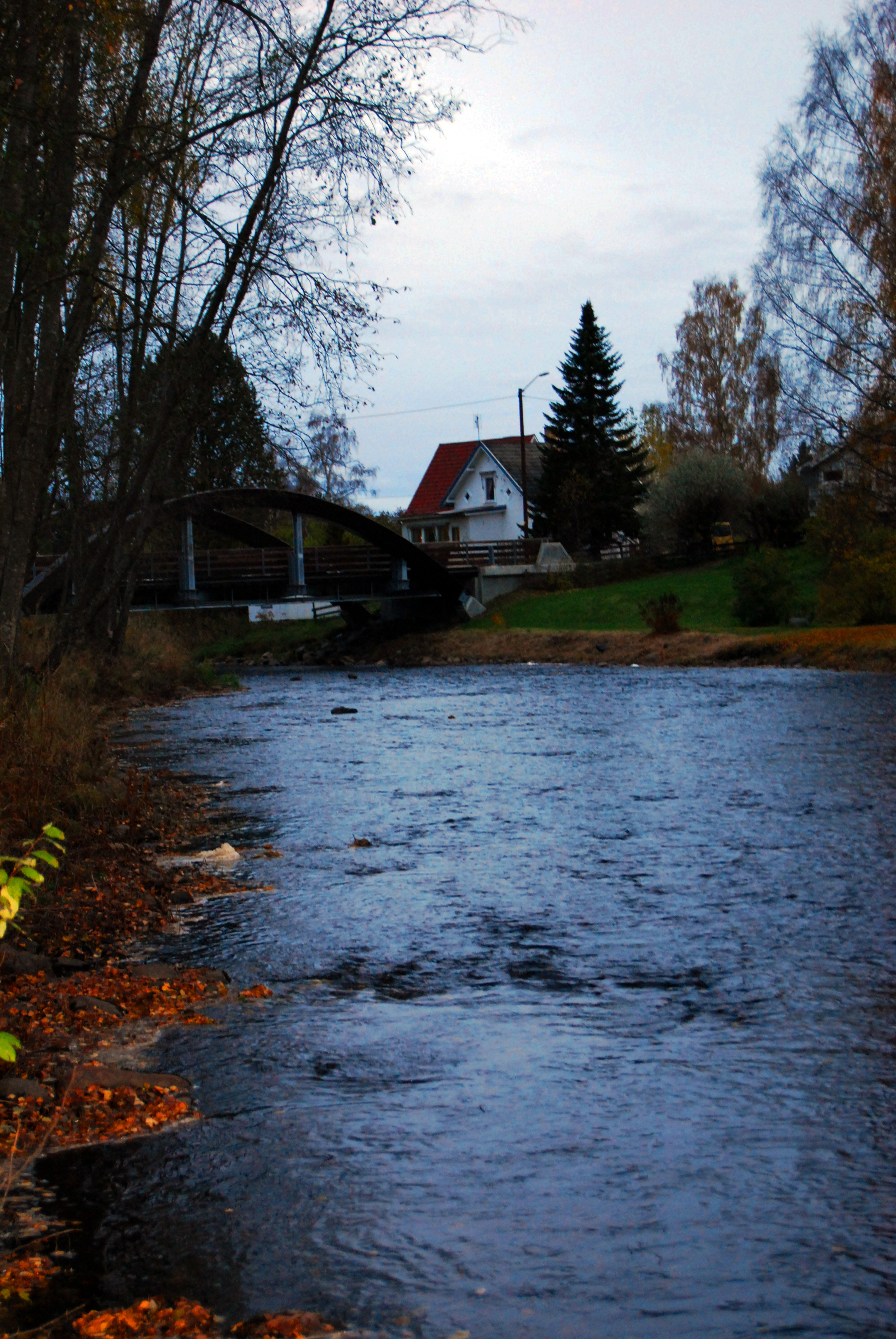 The Black River in Stange, Hedmark. Picture taken near Ilseng.